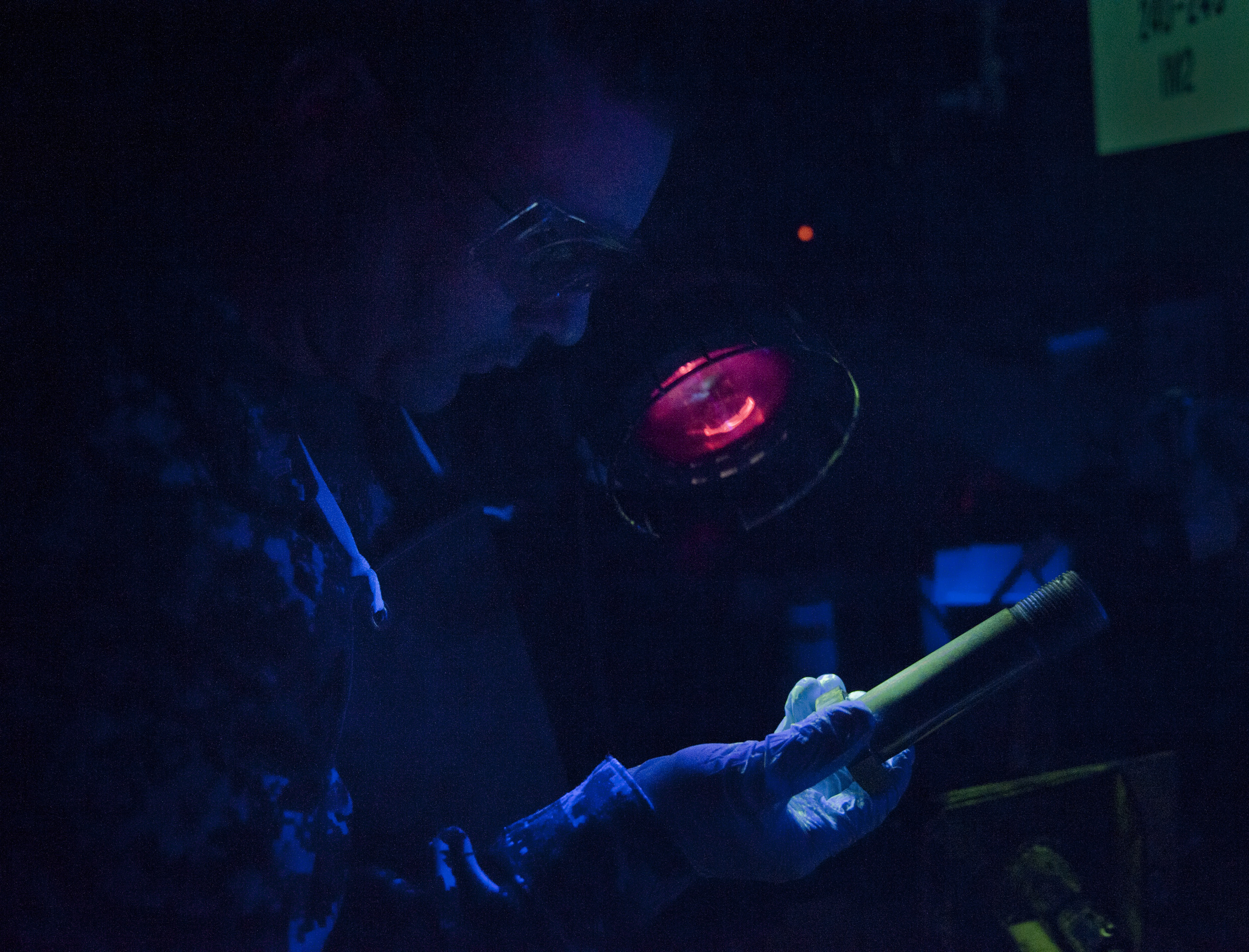 PACIFIC OCEAN (Dec. 20, 2010) Aviation Structural Mechanic 1st Class Charles Martens, a non-destructive inspection (NDI) technician, uses ultraviolet light to inspect a bolt during a magnetic particle inspection in the NDI shop aboard the aircraft carrier USS Carl Vinson (CVN 70). Carl Vinson and Carrier Air Wing (CVW) 17 are on a three-week composite training unit exercise to be followed by a deployment to the U.S. 7th and U.S. 5th Fleet areas of responsibility. (U.S. Navy photo by Mass Communication Specialist 2nd Class James R. Evans/Released)